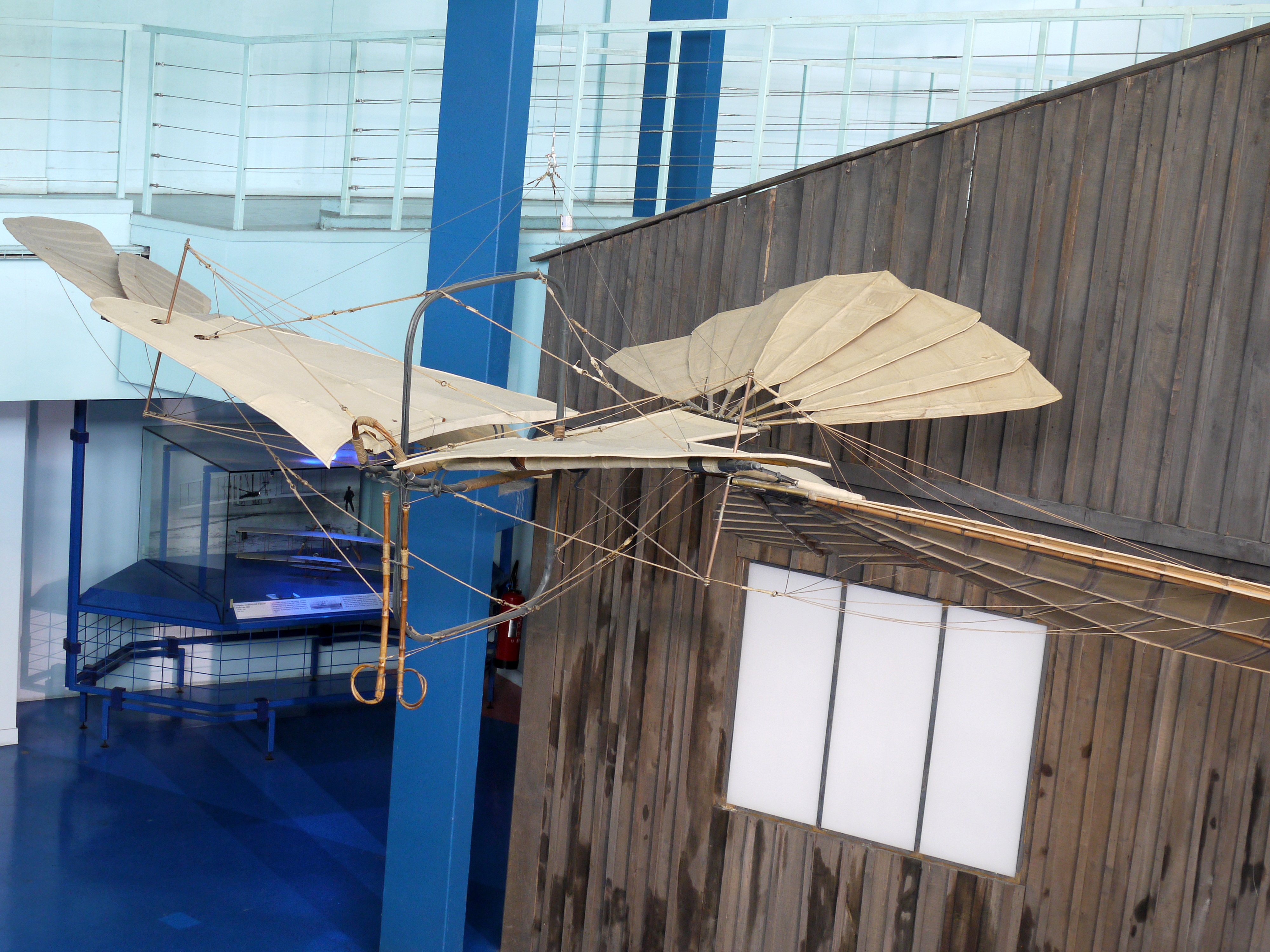 Biot Massia Handglider (1879), Museum of Air and Space Paris, Le Bourget (France)